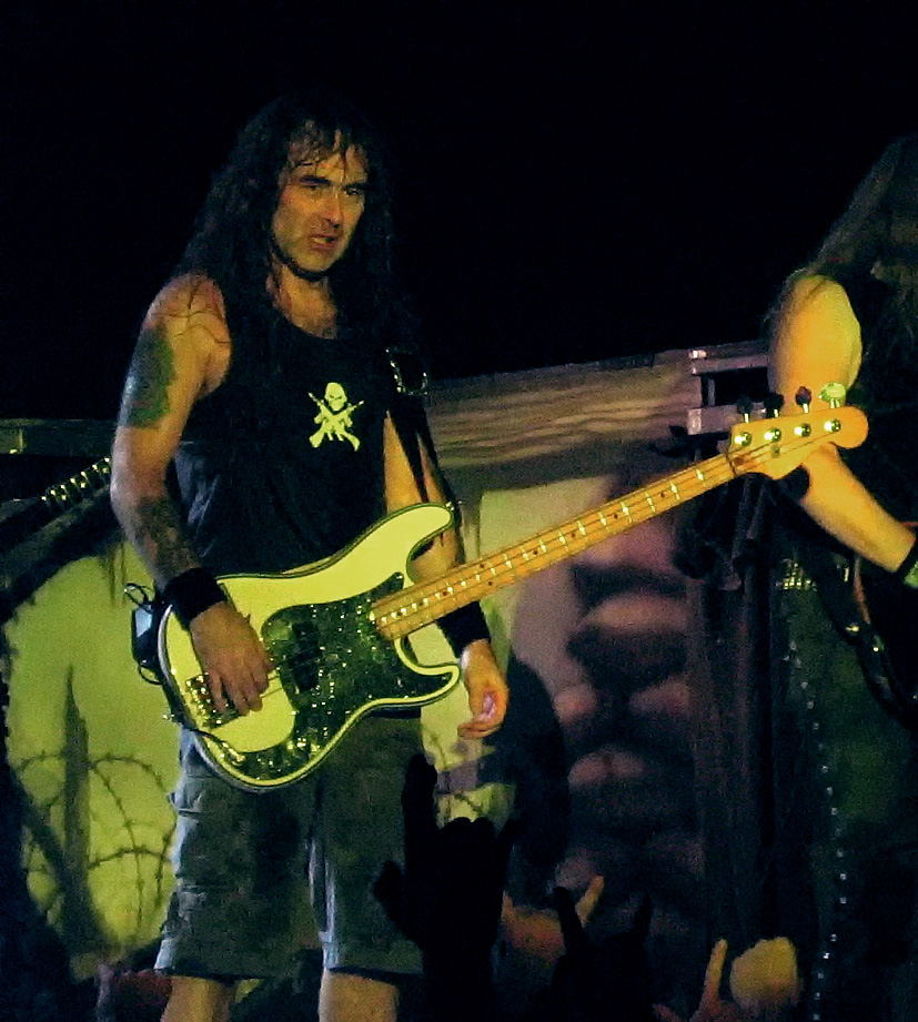 Steve Harris, Iron Maiden's bassist, during a show in Barcelona (A Matter of Life and Death World Tour).